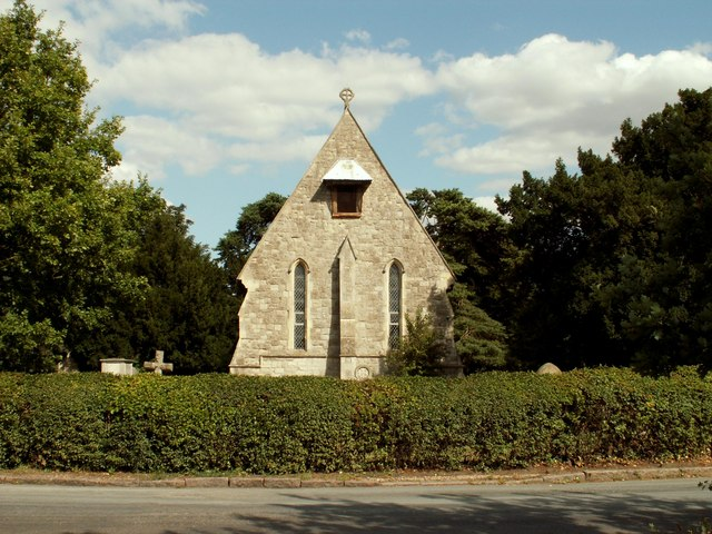 St. Thomas' church, Perry Green, Herts. The famous sculptor, Henry Moore, is buried at this small church, which was built in 1853.